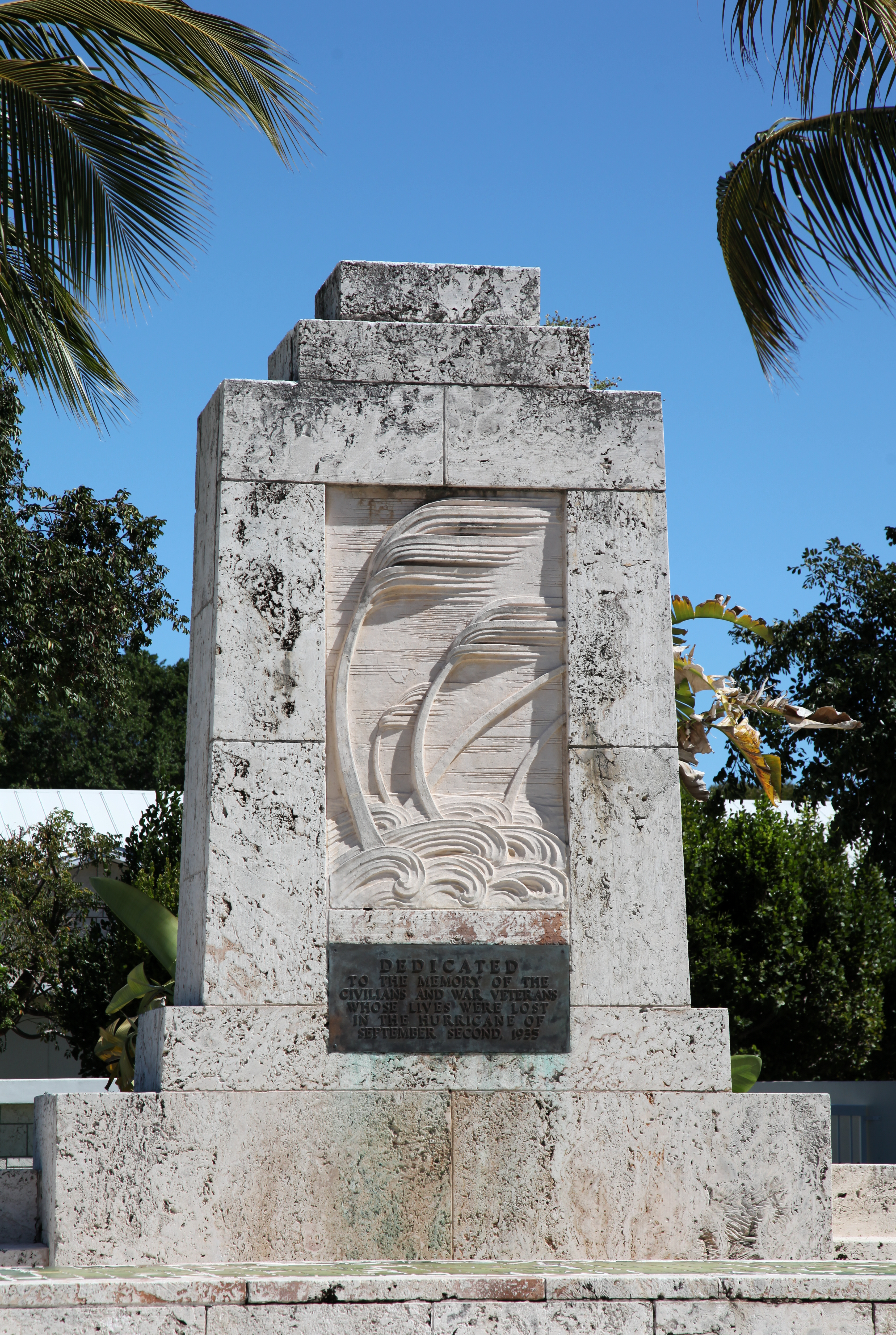 The Florida Keys Memorial, AKA the Hurricane memorial, commemorating victims of 1935 Labor Day Hurricane